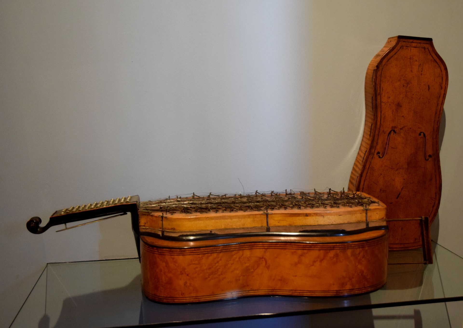 Melophone from France. Czech Museum of Music, Prague